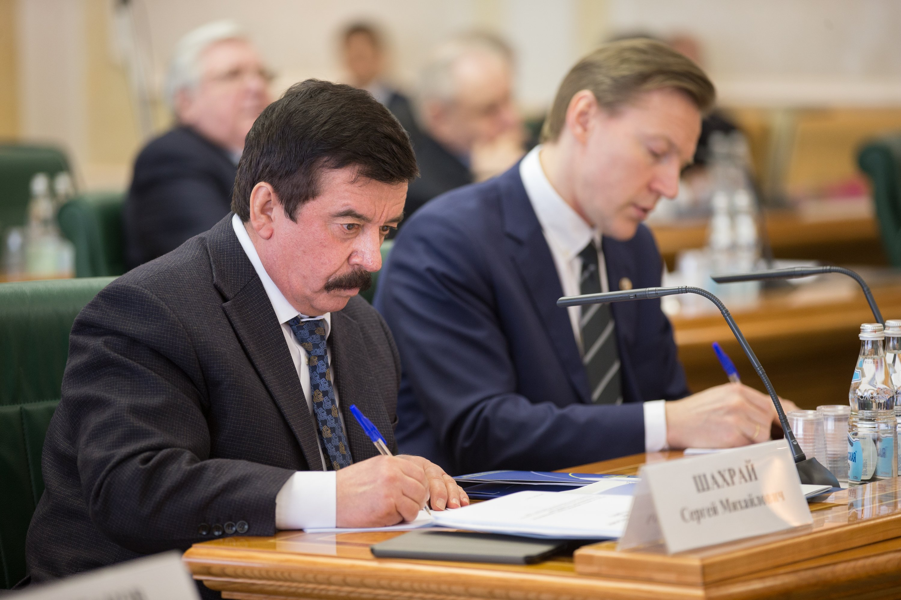 Sergey Shakrai